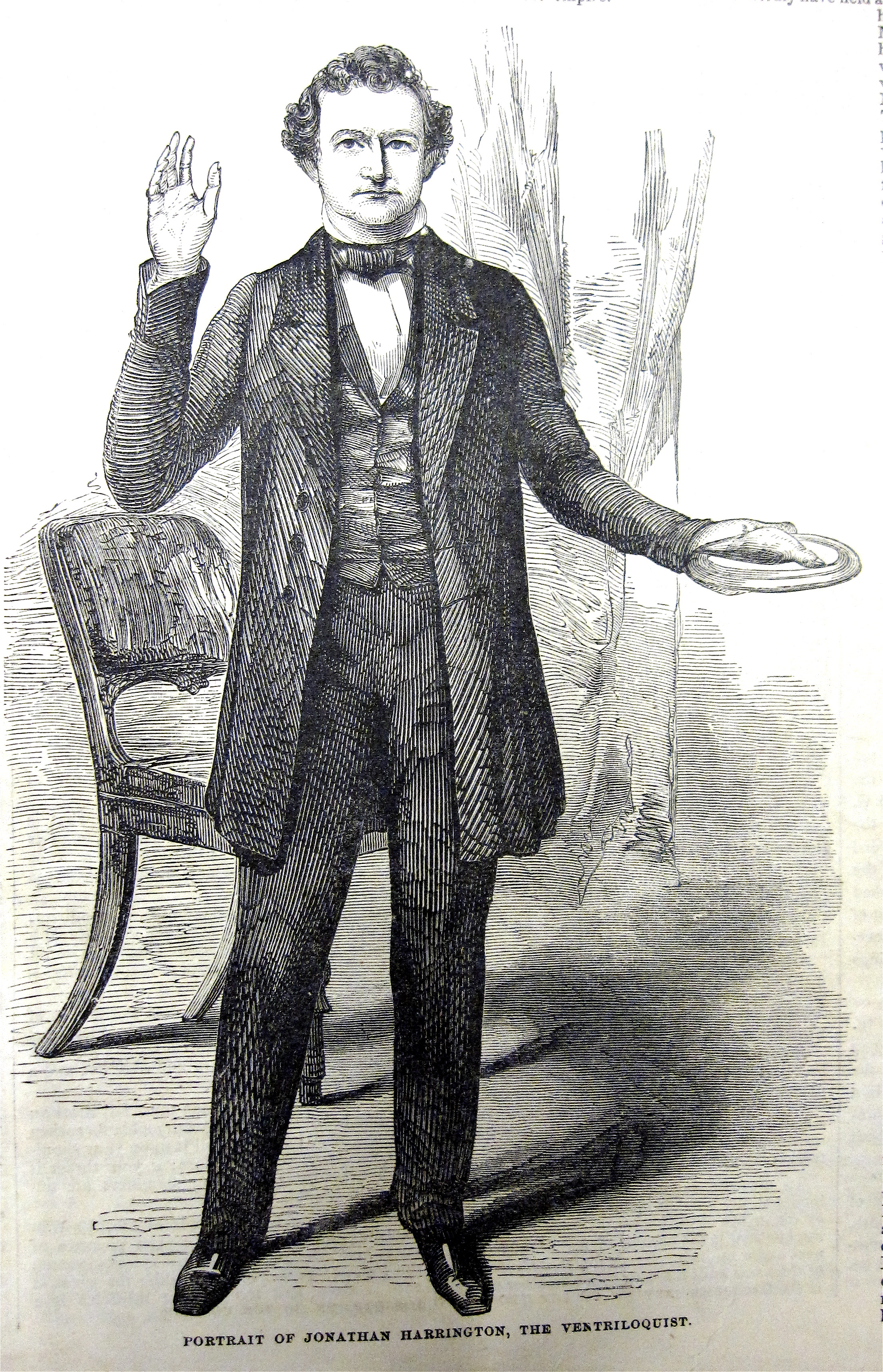 Portrait of John Harrington, in: Gleason's Pictorial 1852